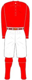 Newcastle homekit 1892-94